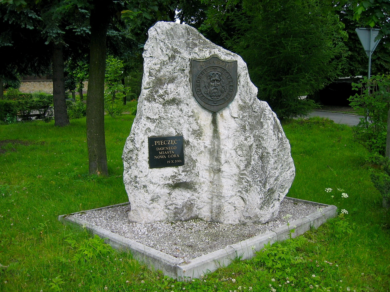 Nowa Góra near Chrzanów, a monument displaying the former town seal of Nowa Góra